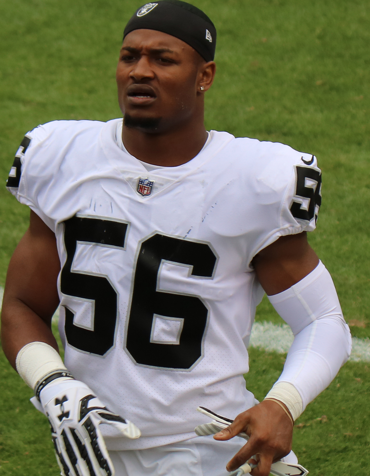 Xavier Woodson-Luster, a player on the National Football League.